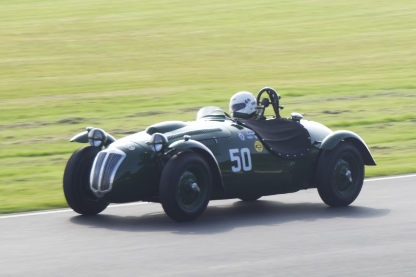 Frazer Nash Le Mans Replica, Castle Combe 2015-10-03